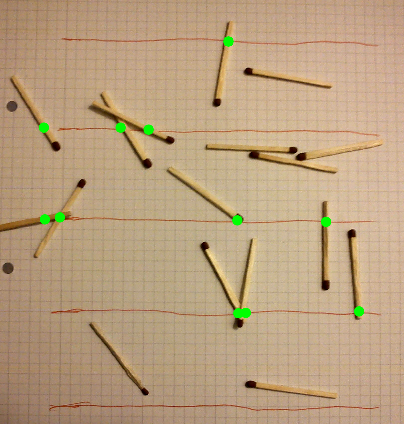 Determine the value of π {\displaystyle \pi } using sticks